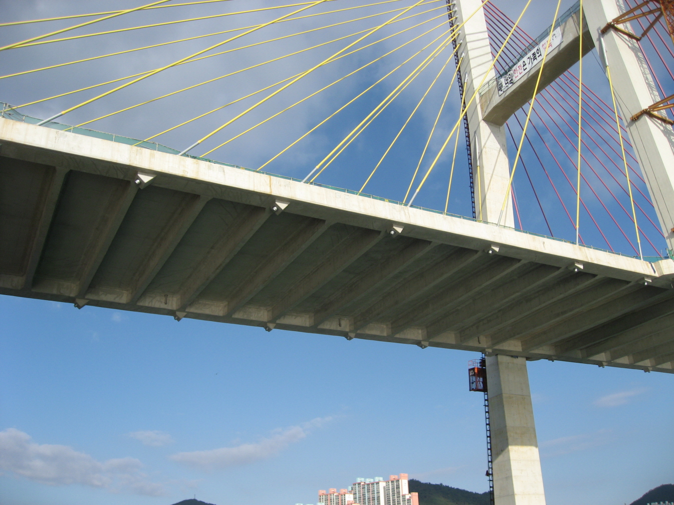 Geobukseon Bridge _View3